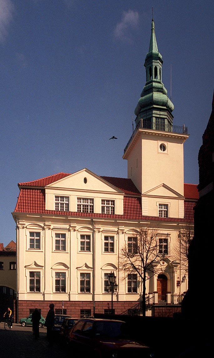 Grudziądz, former Jesuit college, today City Council.